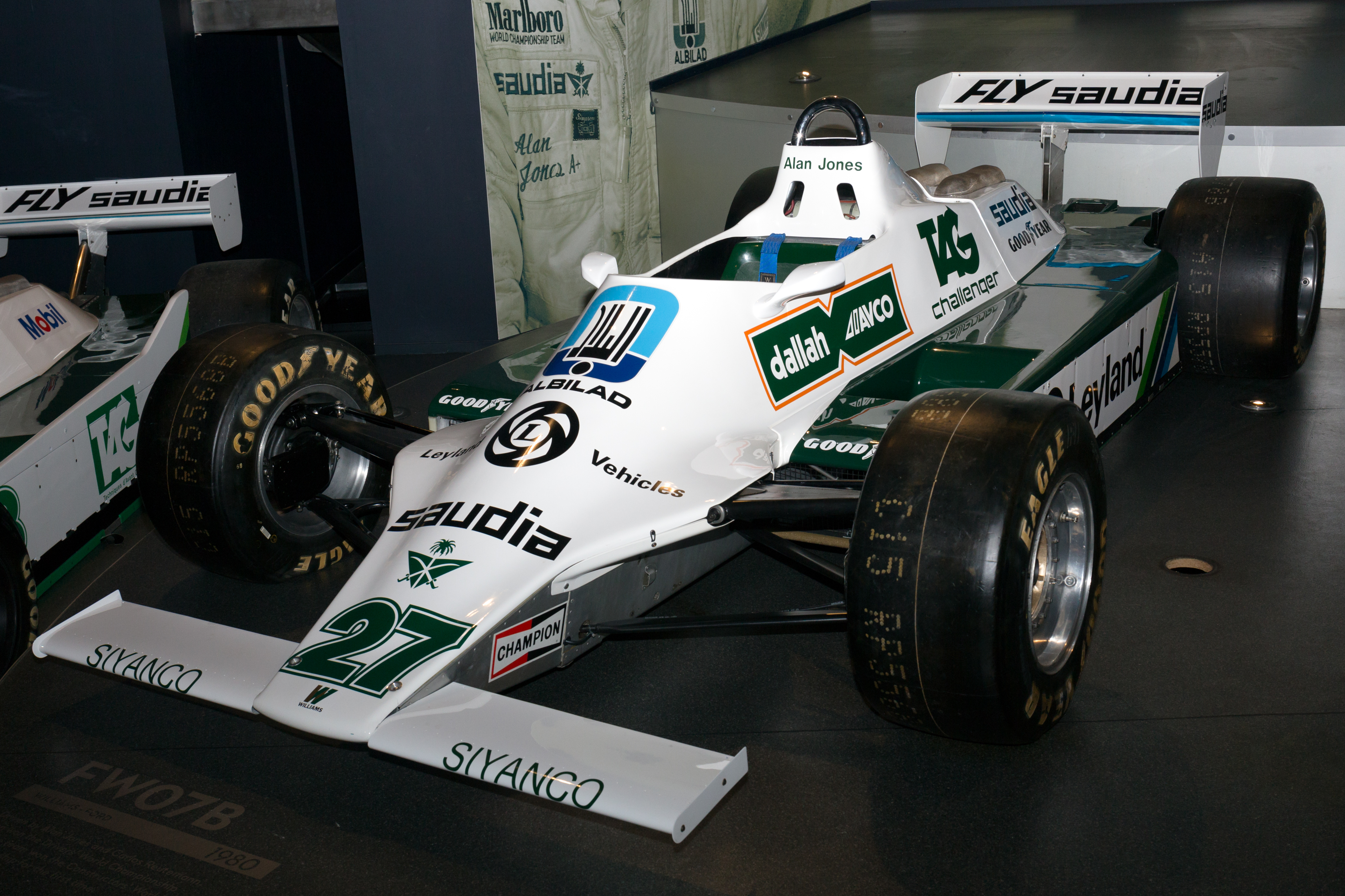 Williams Conference Centre (Grove): Williams FW07B of Alan Jones